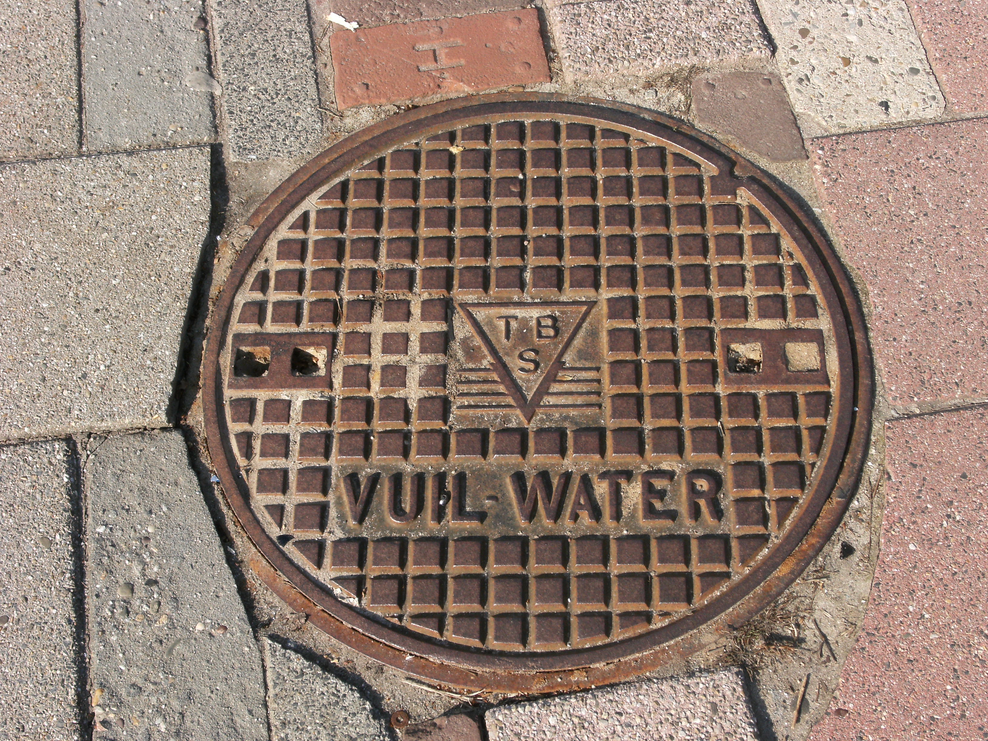 Manhole cover in Dronten.